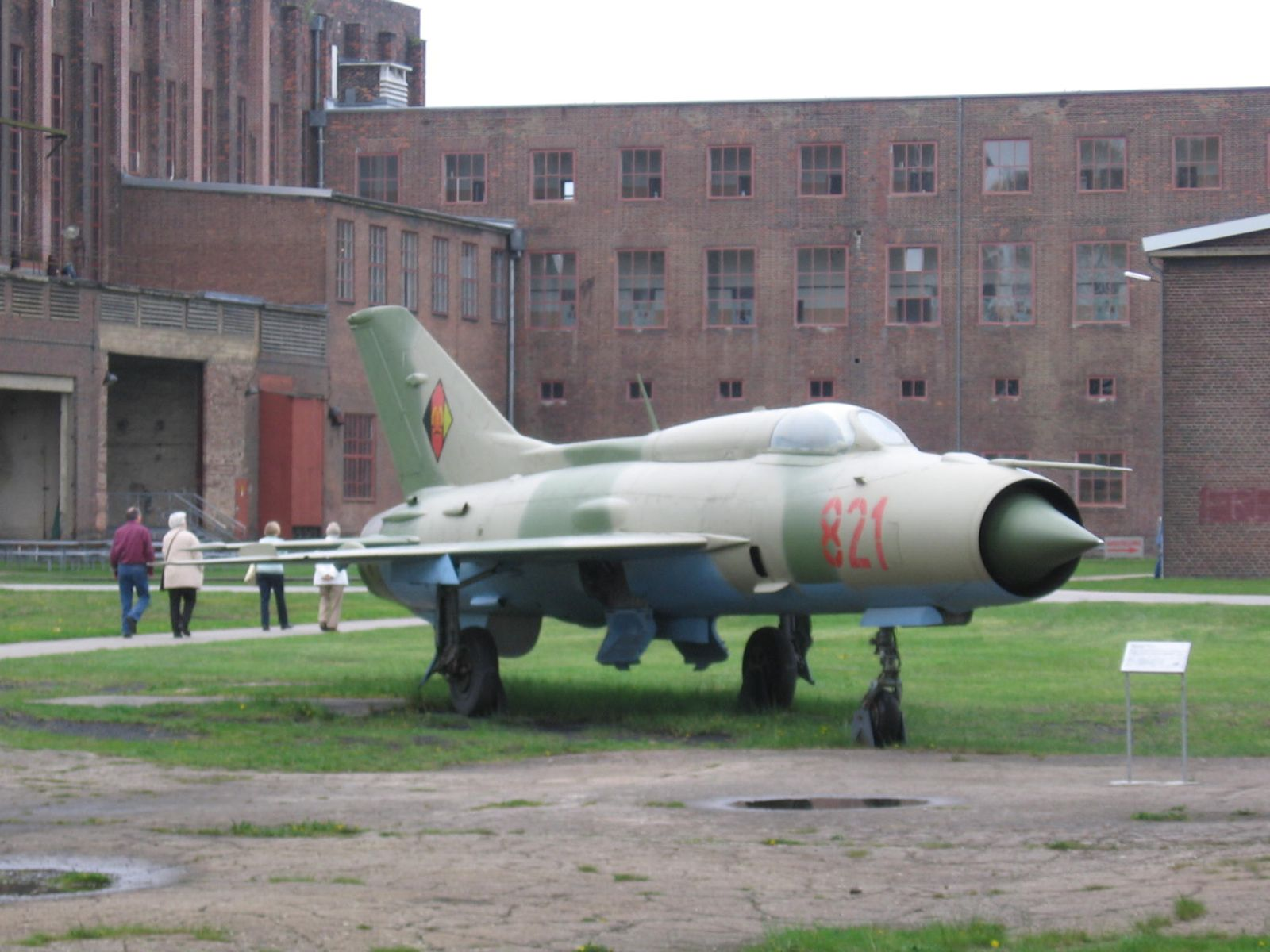 MiG-21PF.